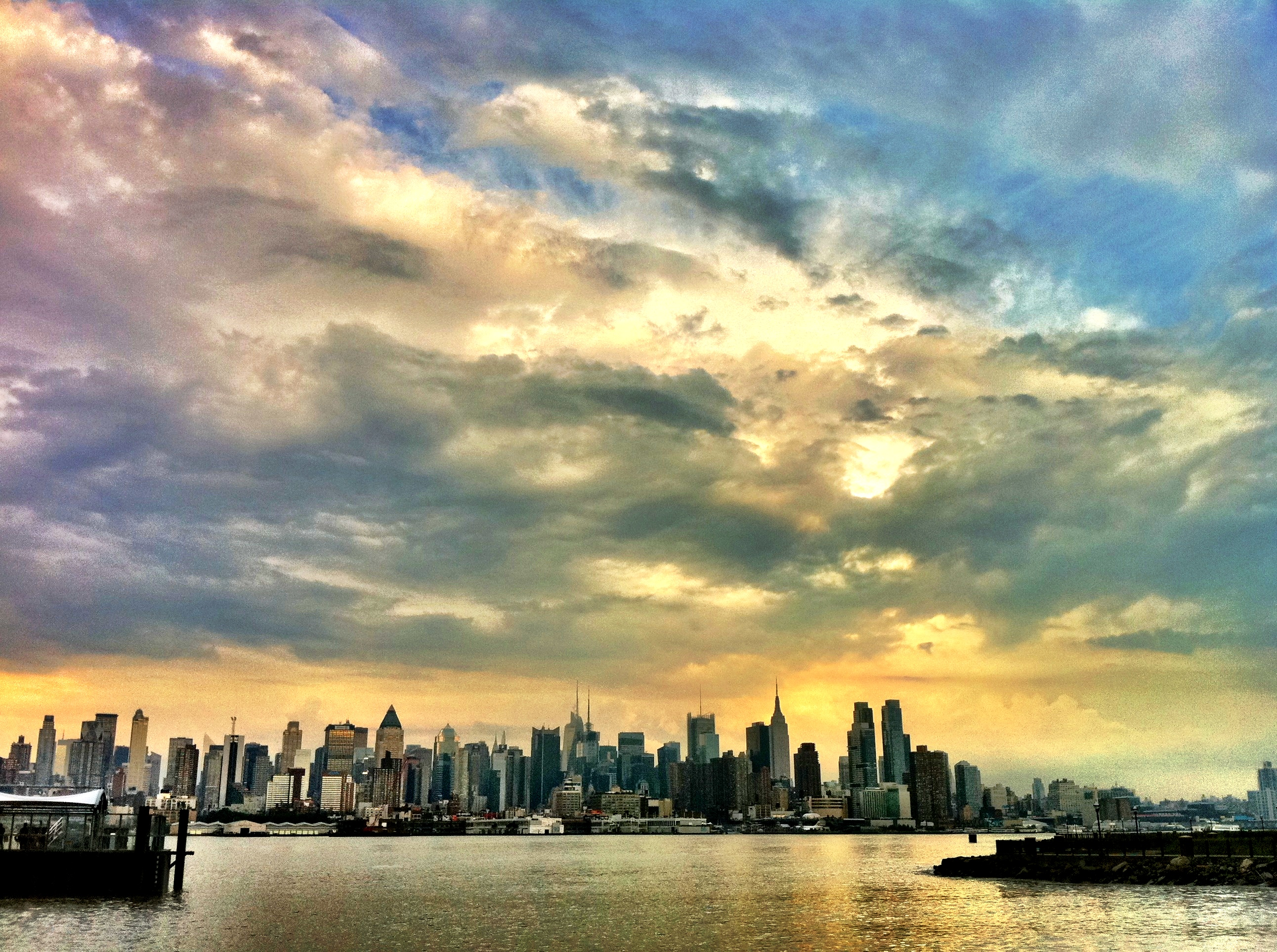 The New York City skyline after a stormy afternoon from Port Imperial, NY Waterway in Weehawken New Jersey. Original caption: “ taken by Anthony Quintano Used Camera+ App in Iphone 4 ”